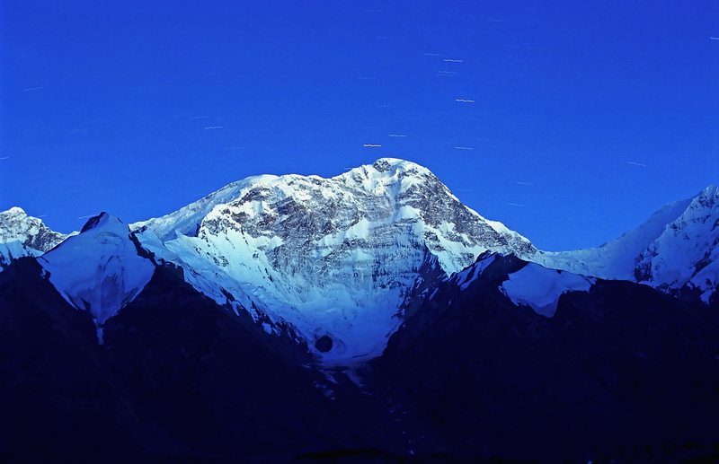 The hills Central Tian Shian is located in Central Asia. On the maximum points of this file there passes border of three countries - China, Kazakhstan and the Kirghizstan. On gorges of this hills powerful glaciers with the glacial rivers and lakes proceed. Here the most northern peaks with a mark above 7000м. Peak of Khan Tengri 7010м., and peak the Pobeda 7439м are located.